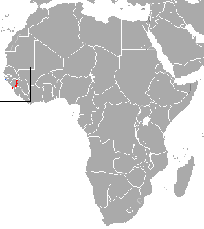 Maclaud's Horseshoe Bat (Rhinolophus maclaudi) range